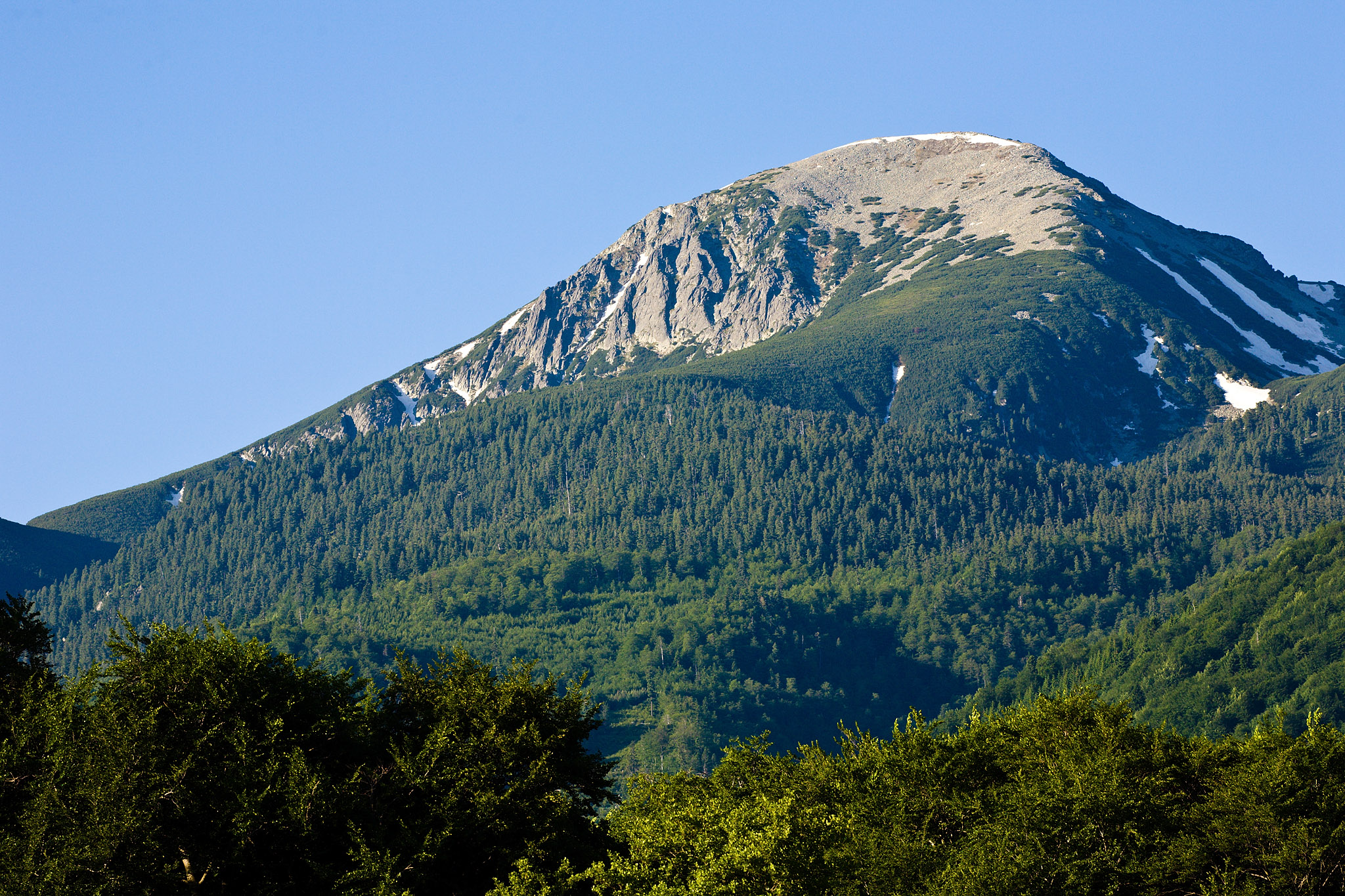 Dautov vrah - a peak in Pirin mountain, Bulgaria